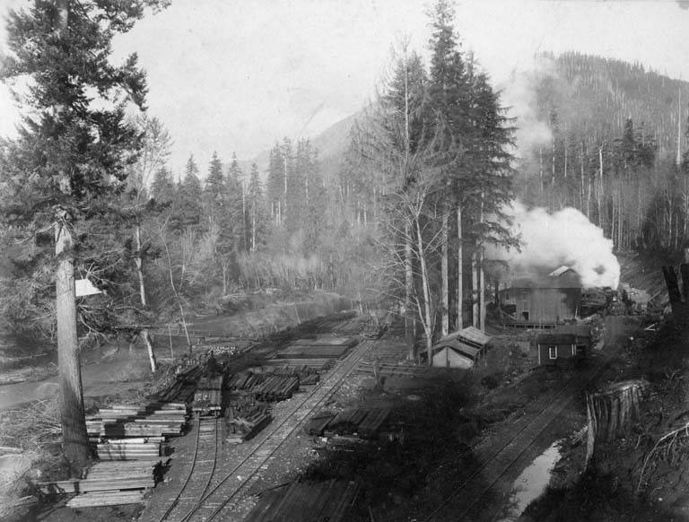 PH Coll 332.66 Eagle Gorge in the Cascades was discovered and named during the explorations of the Green River and Stampede Pass by the Northern Pacific Railway Company. Subjects (LCSH): Railroad yards--Washington (State); Northern Pacific Railway Company